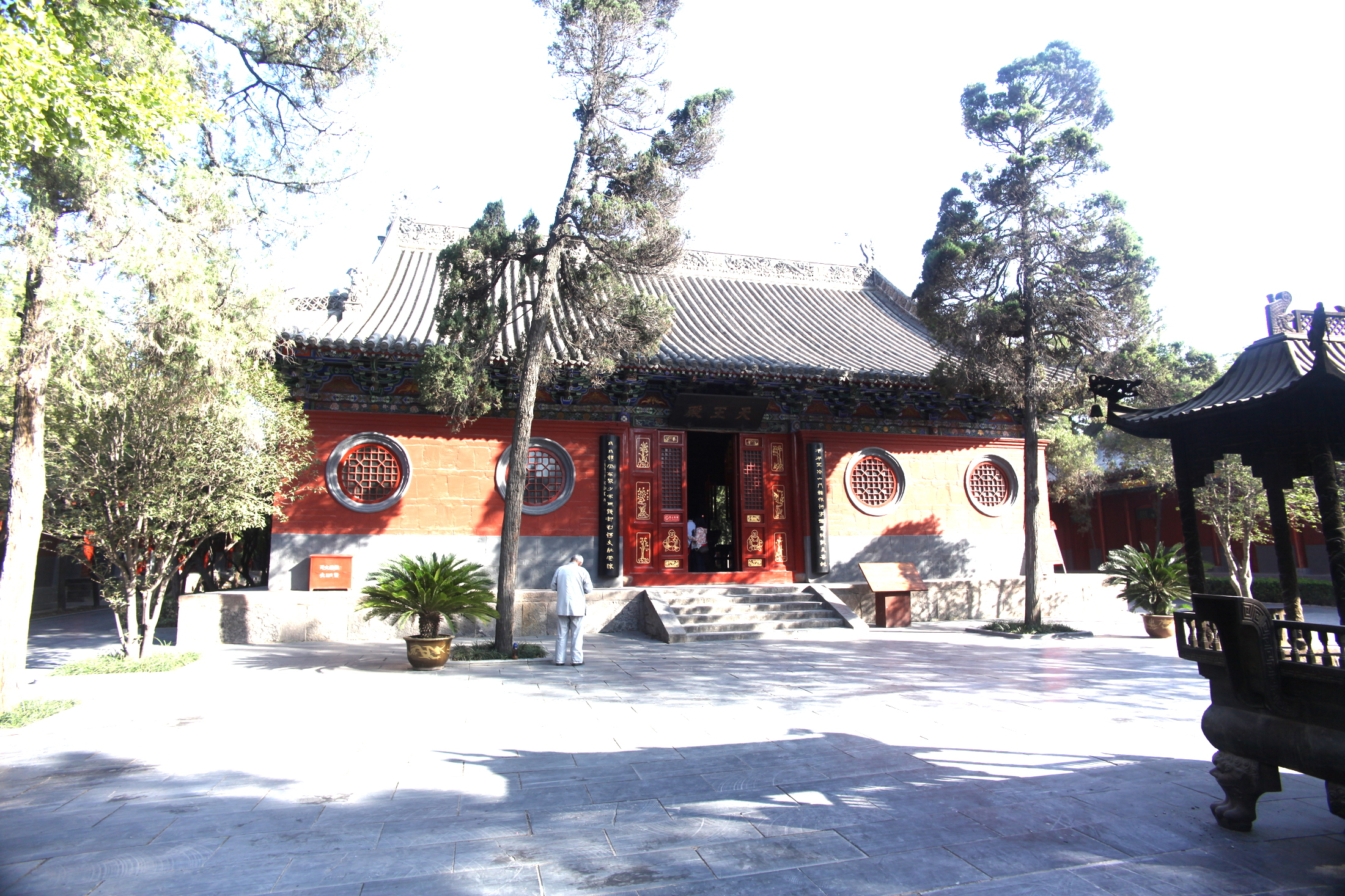 The Hall of Four Heavenly Kings at White Horse Temple, in Luoyang, Henan, China.